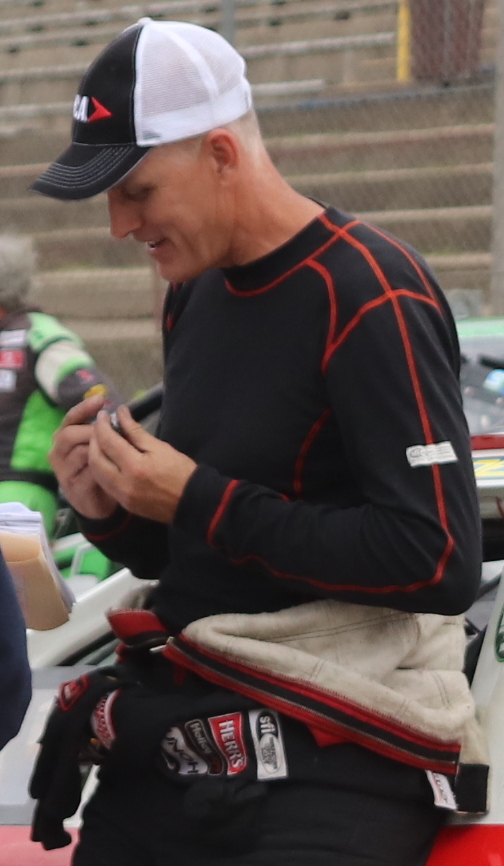 ARCA driver Eric Caudell at Madison International Speedway.